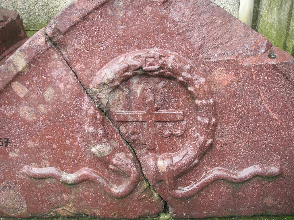 Chi-rho. Closeup of one of the sarcophagi of Byzantine emperors. Istanbul Archaeological Museum.